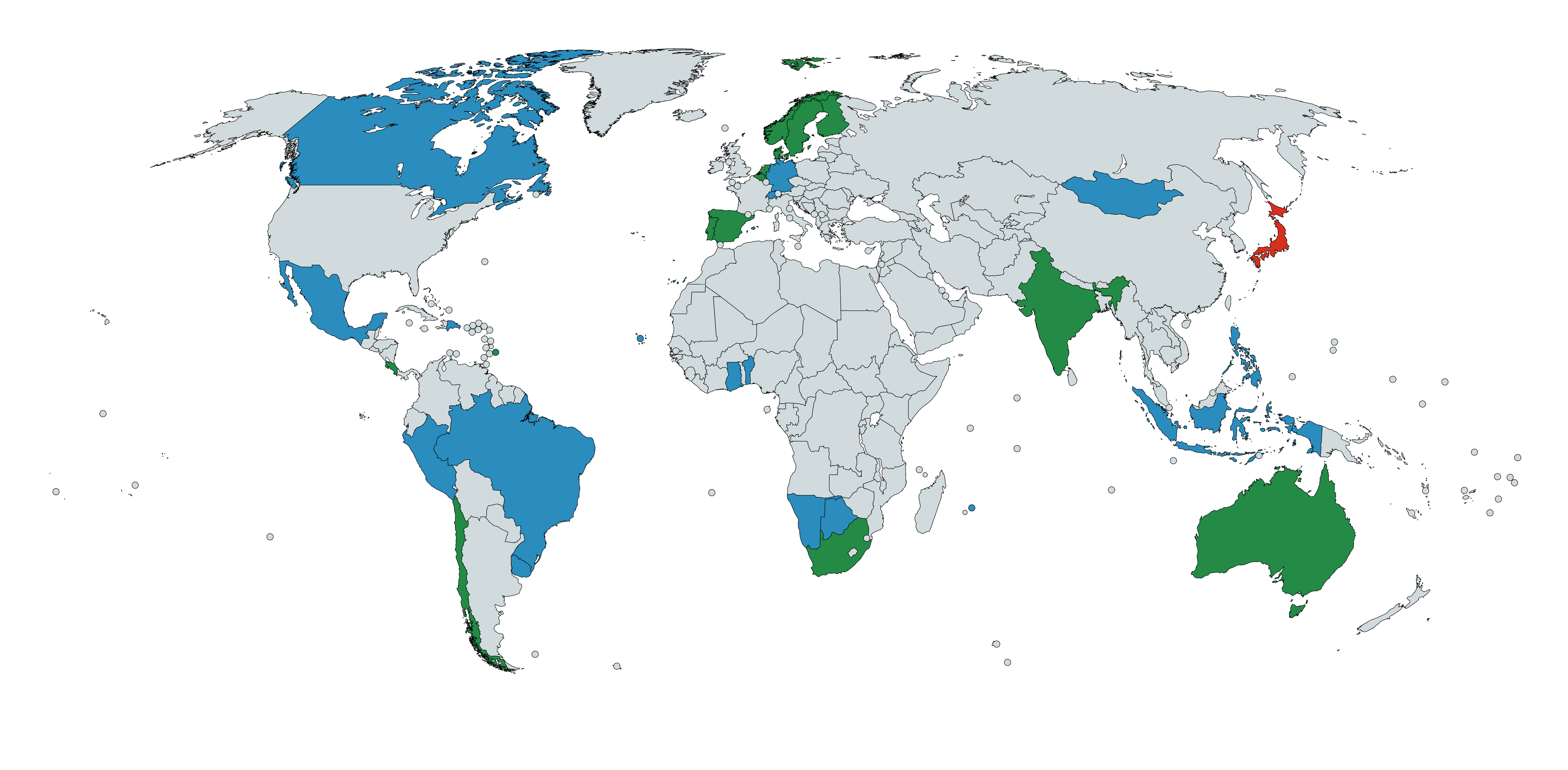 International IDEA members Founding members Members Observing member